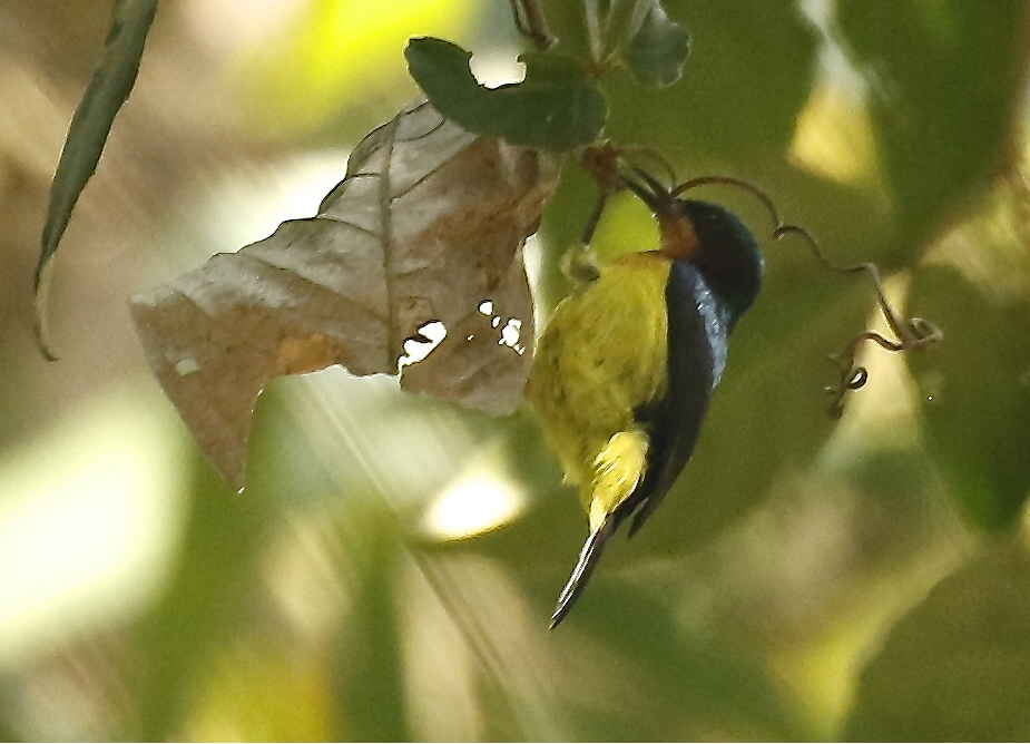 Kaeng Krachan Nat’l Park